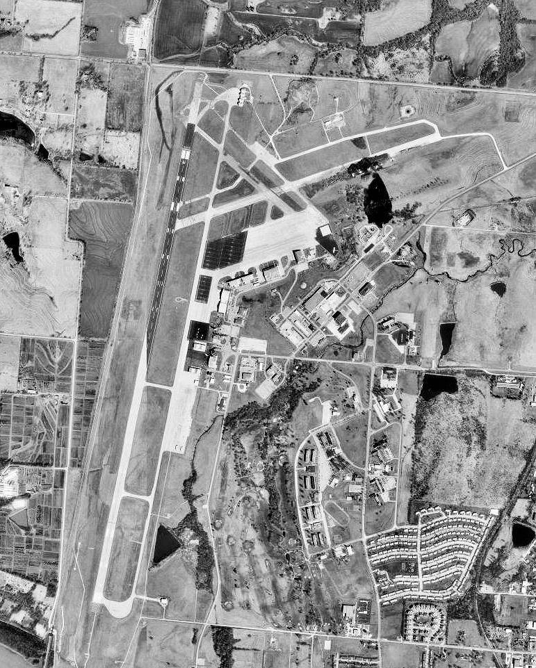 USGS orthophoto of Richards-Gebaur Air Force Base, Missouri